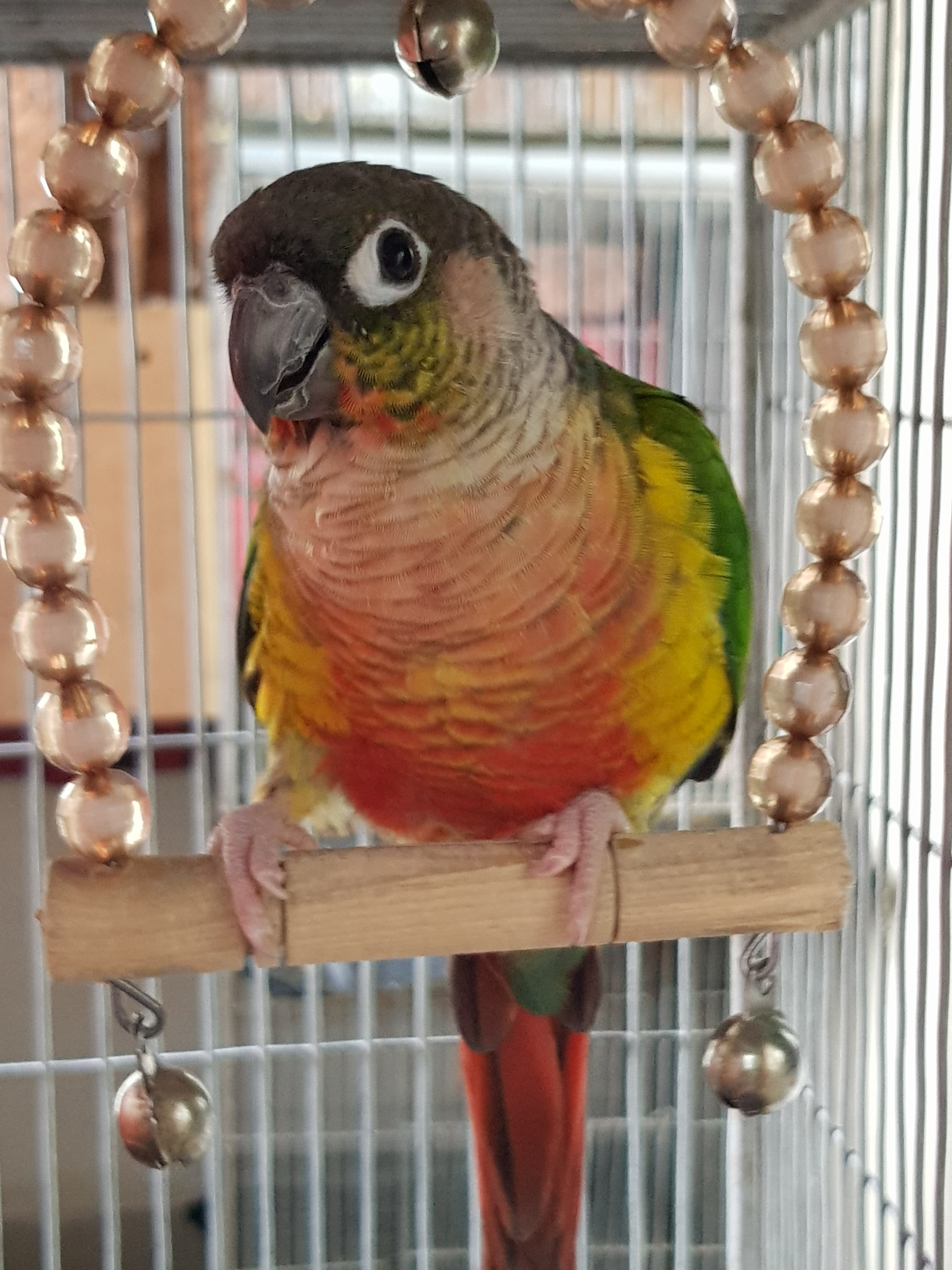 The green-cheeked parakeet or green-cheeked conure is a small parrot of the genus Pyrrhura, which is part of a long-tailed group of the New World parrot subfamily Arinae. This type of parrot is generally called a conure in aviculture. It is native to the forests of South America.